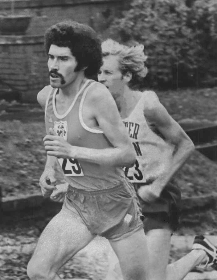 1976 Press Photo Olympic Track And Field Runners Ed Leddy And Bill Rodgers